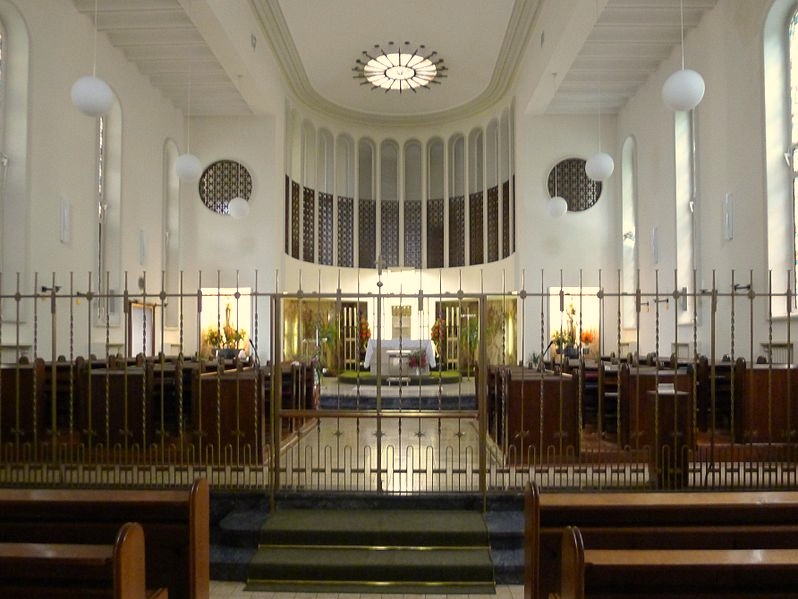 Choir of the nuns of the Society of the Divine Word in St. Gabriel, Berlin-Westend